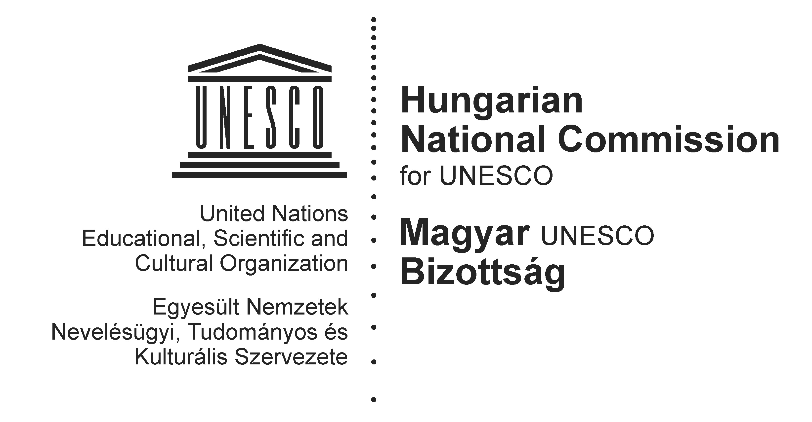 Logo of the Hungarian National Commission for UNESCO